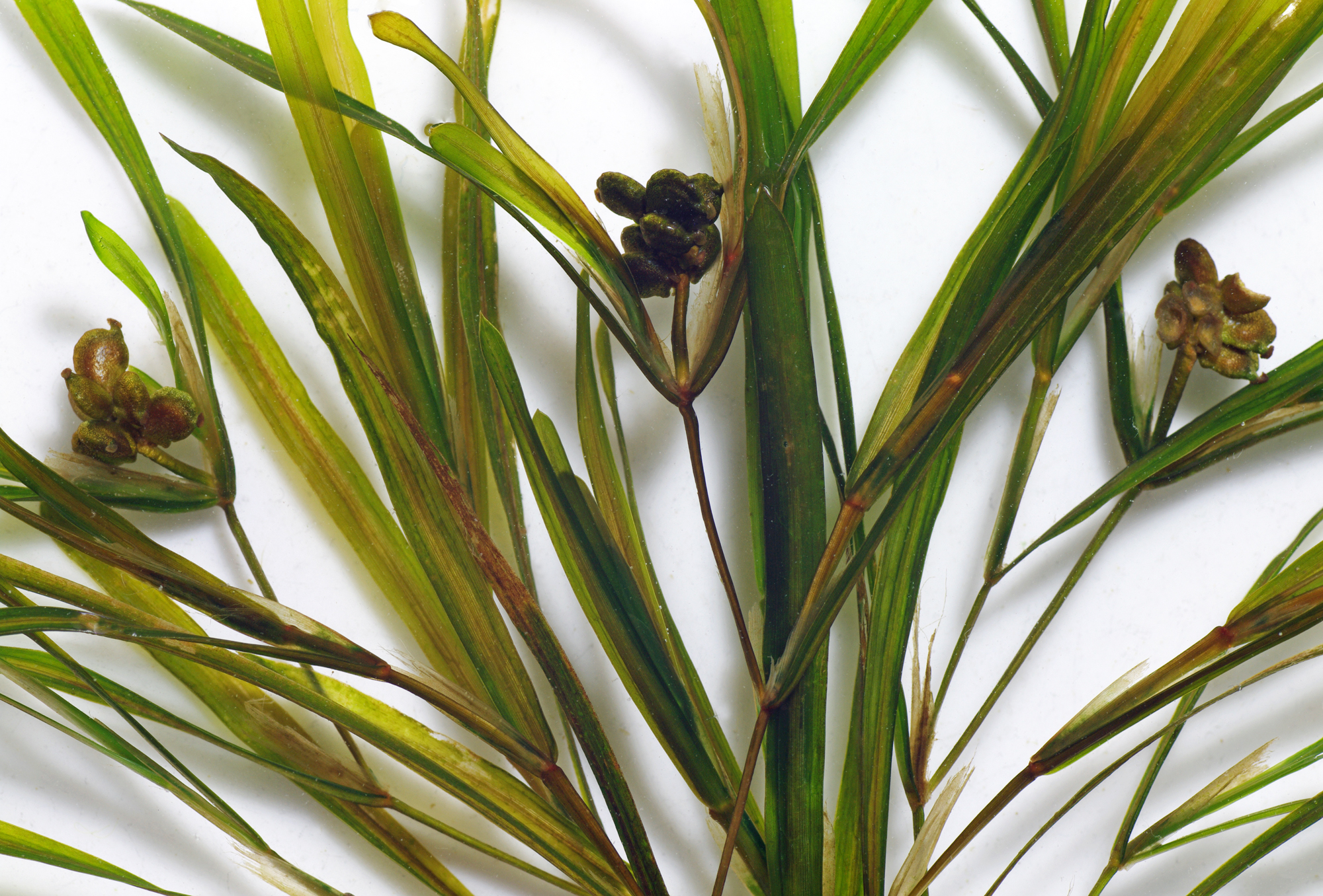 Fruiting Sharp-leaved Pondweed (Potamogeton acutifolius).